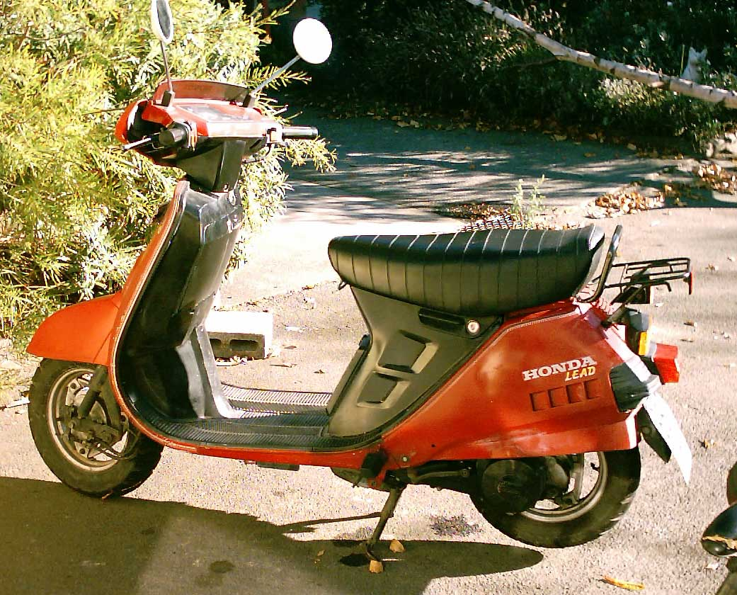 Honda Lead/Aero NH80 1984 NZ model. Photo taken by User:Clawed.